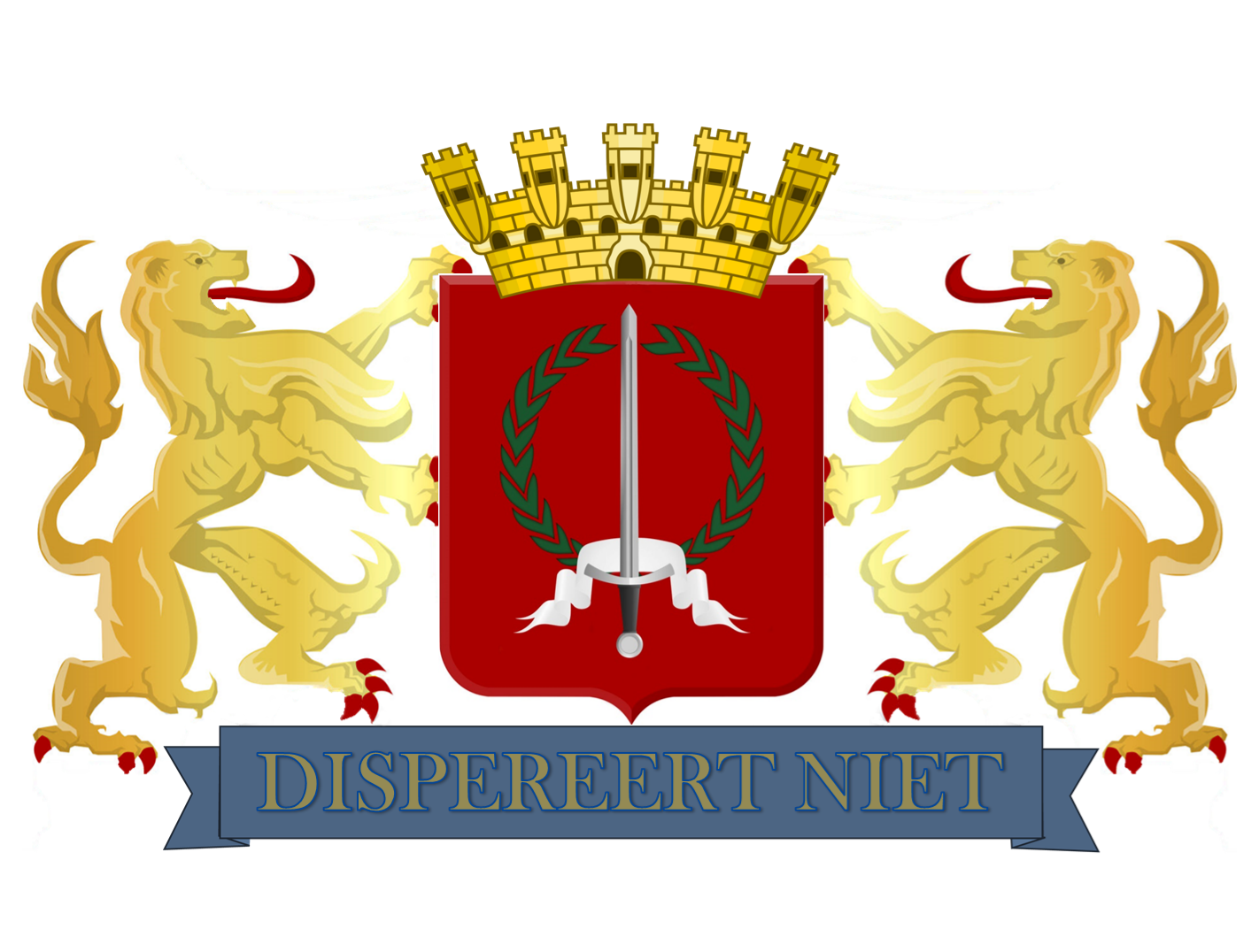 Coat of Arms Batavia Jakarta Dutch East Indies